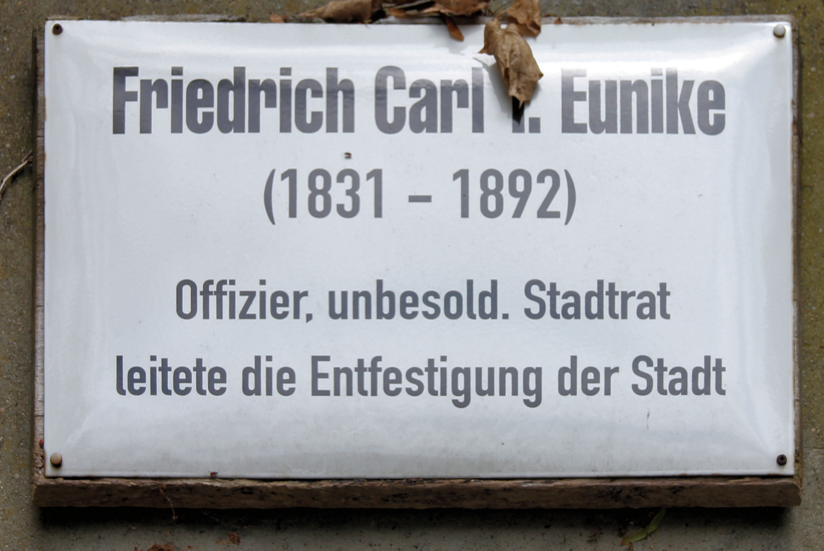 Memorial plaque, Fritz Eunike, Schloßplatz, Lutherstadt Wittenberg, Germany Koordinate:51°51′59″N 12°38′18″E / 51.86639°N 12.63833°E